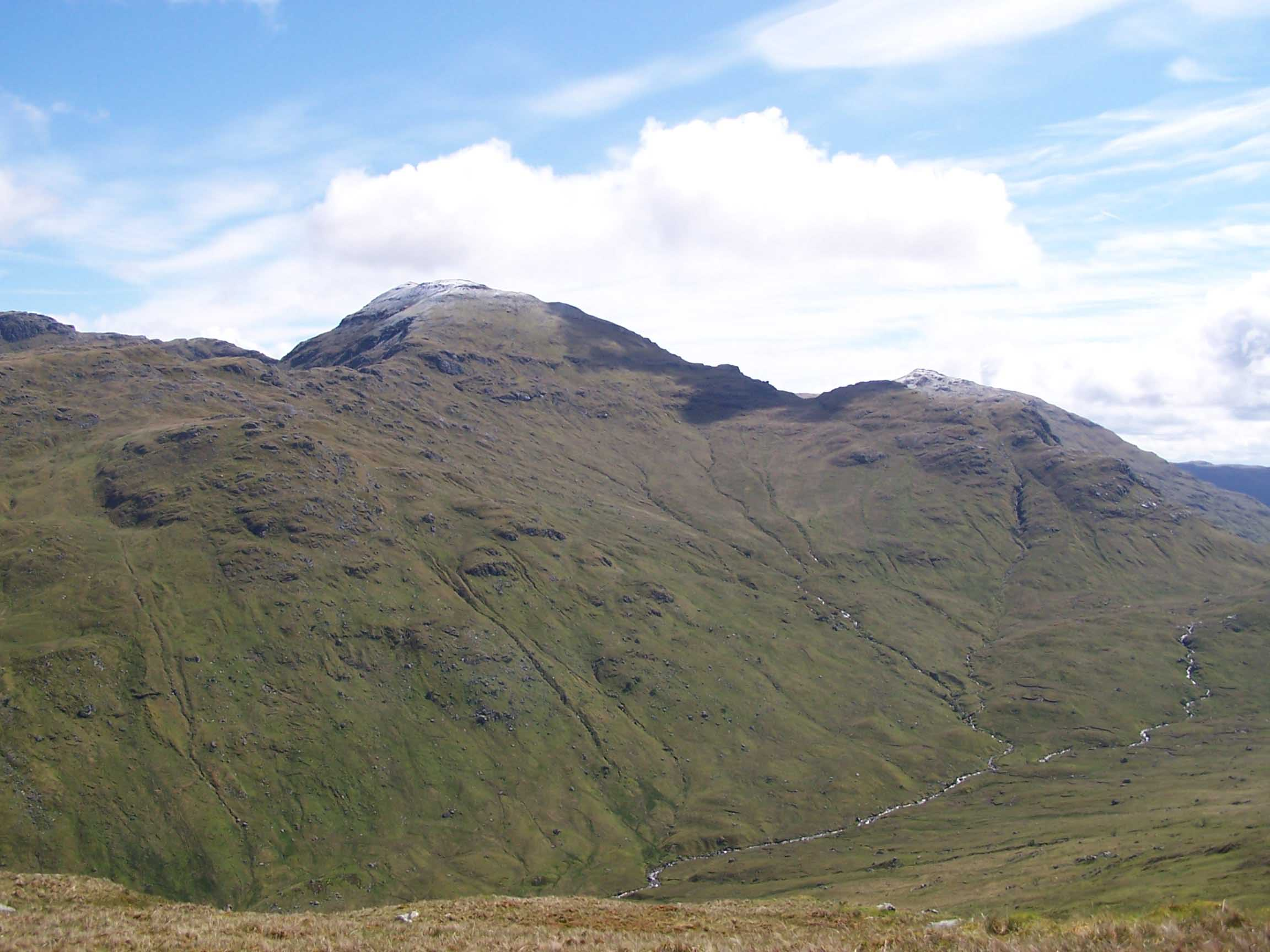 Personal picture taken by Mick Knapton